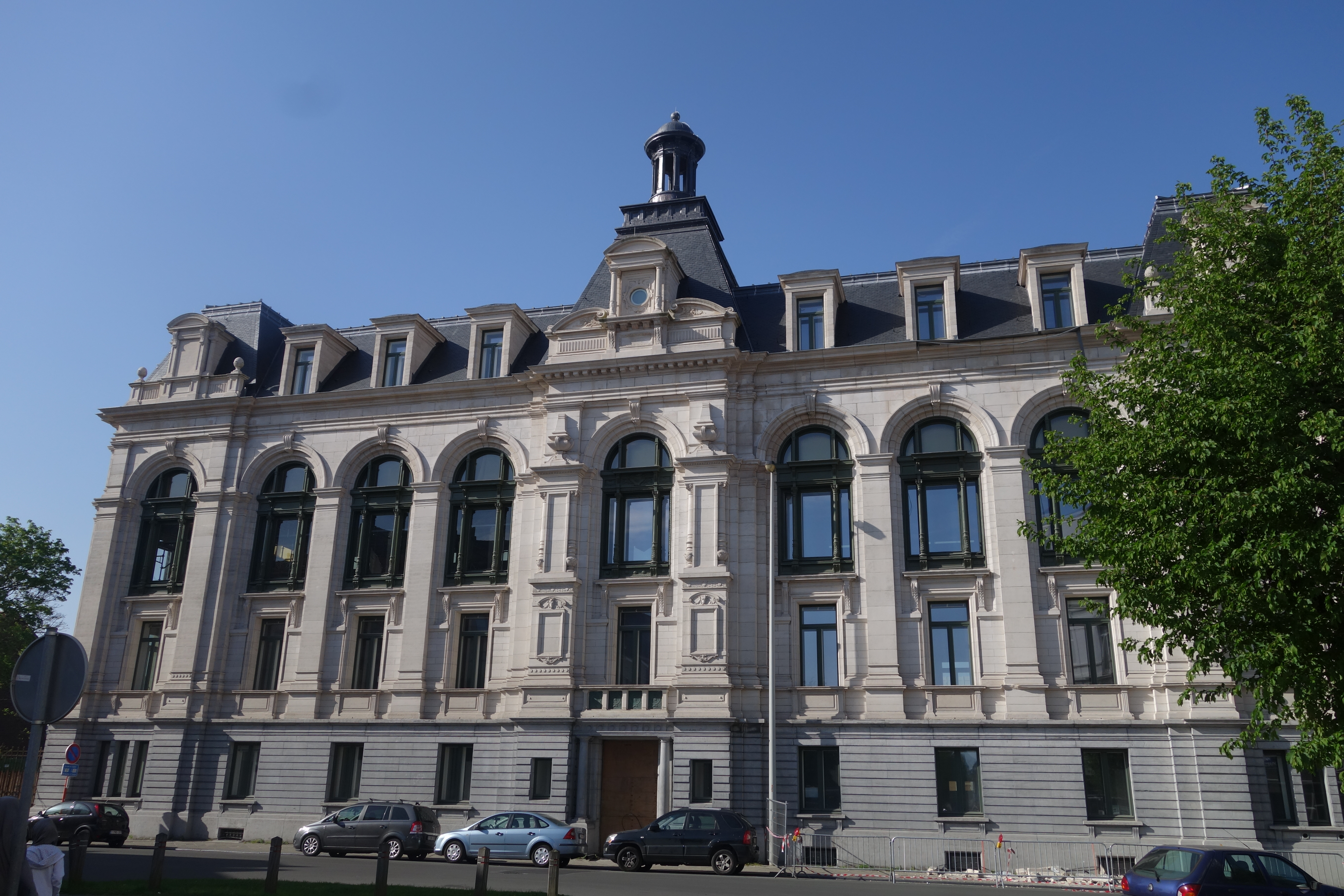 Central building of the former Royal School of Veterinary Medecine of Cureghem. Building inaugurated in 1892 and abandoned in 1991, when the Faculty for Veterinary Medecine of the University of Liège moved to Liège.